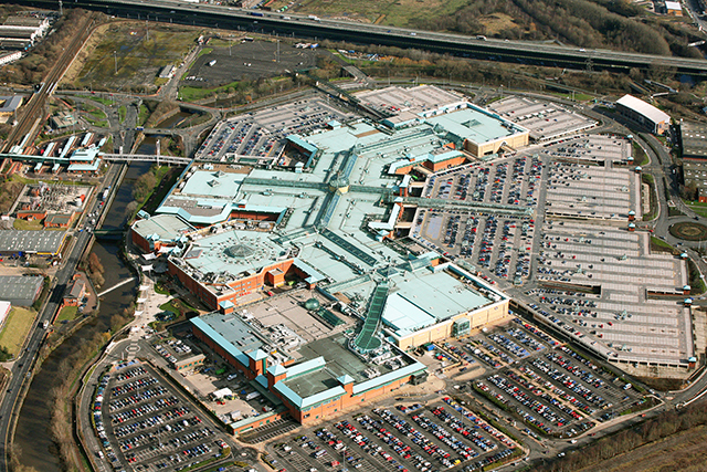 Meadowhall Shopping Complex Aerial view looking towards Tinsley Flyover